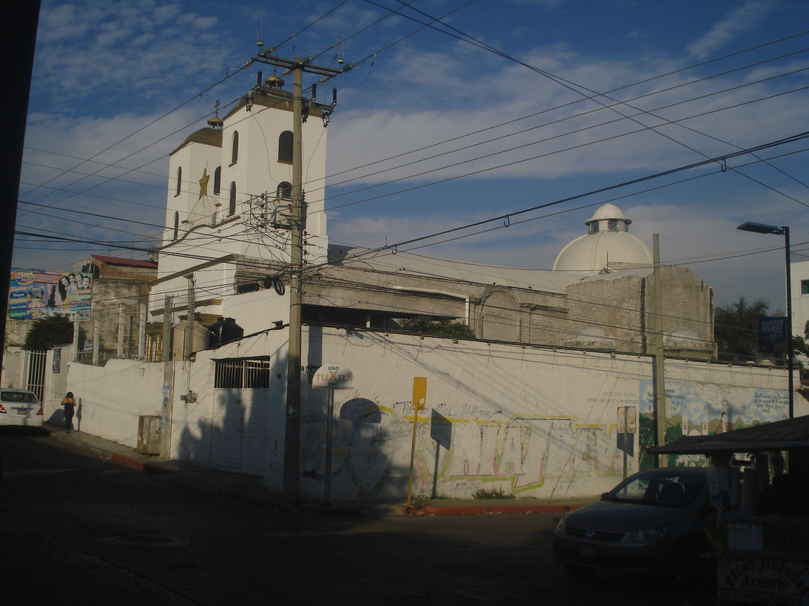 Church of San Pascualito at Tuxtla, Chiapas, Mexico.